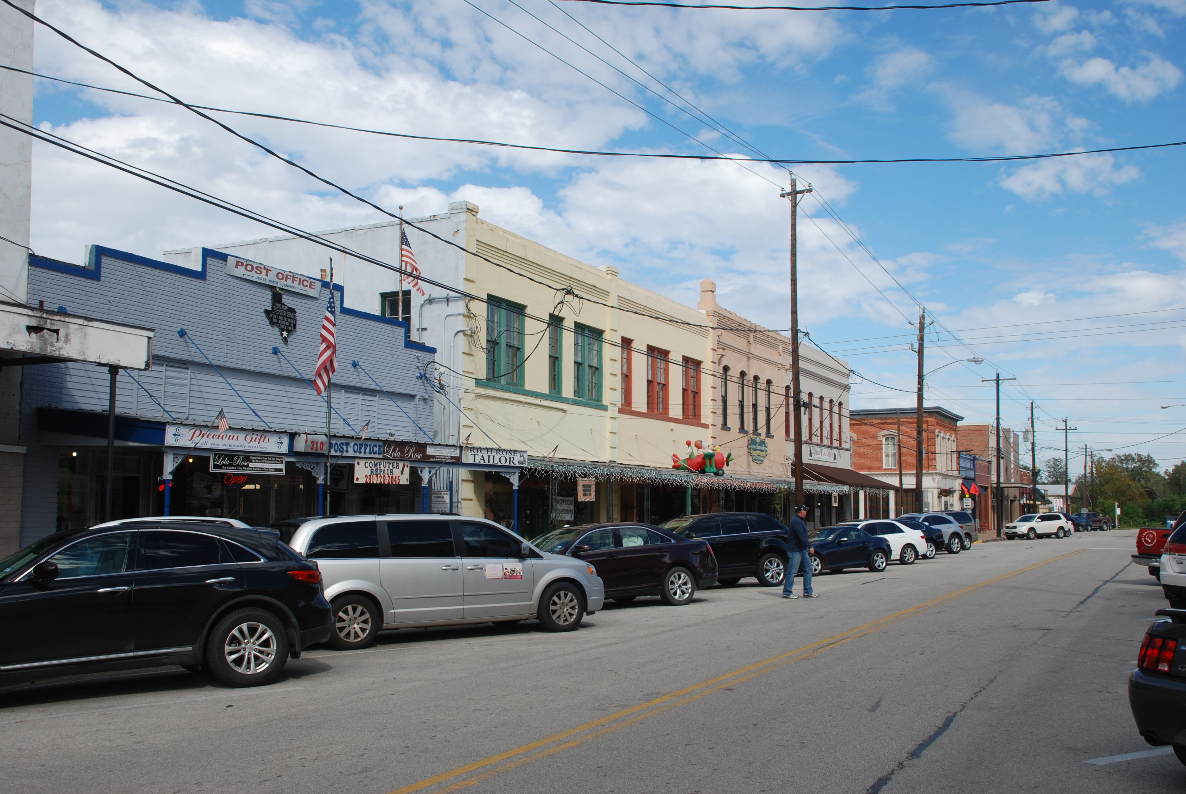 Historical Downtown houses at Morton Street (Richmond, Texas, USA)